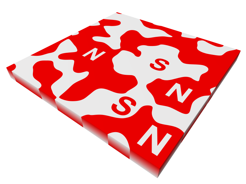 This image shows the orthomagnetic "sheet" used in magnetic bubble memory; it has its orthomagnetic axis perpendicular to the square surface. Even without an external field, it tends to form these sharply divided areas, some with north pole up/south pole down, others with the poles the other way around.